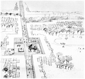 Construire et reconstruire la ville